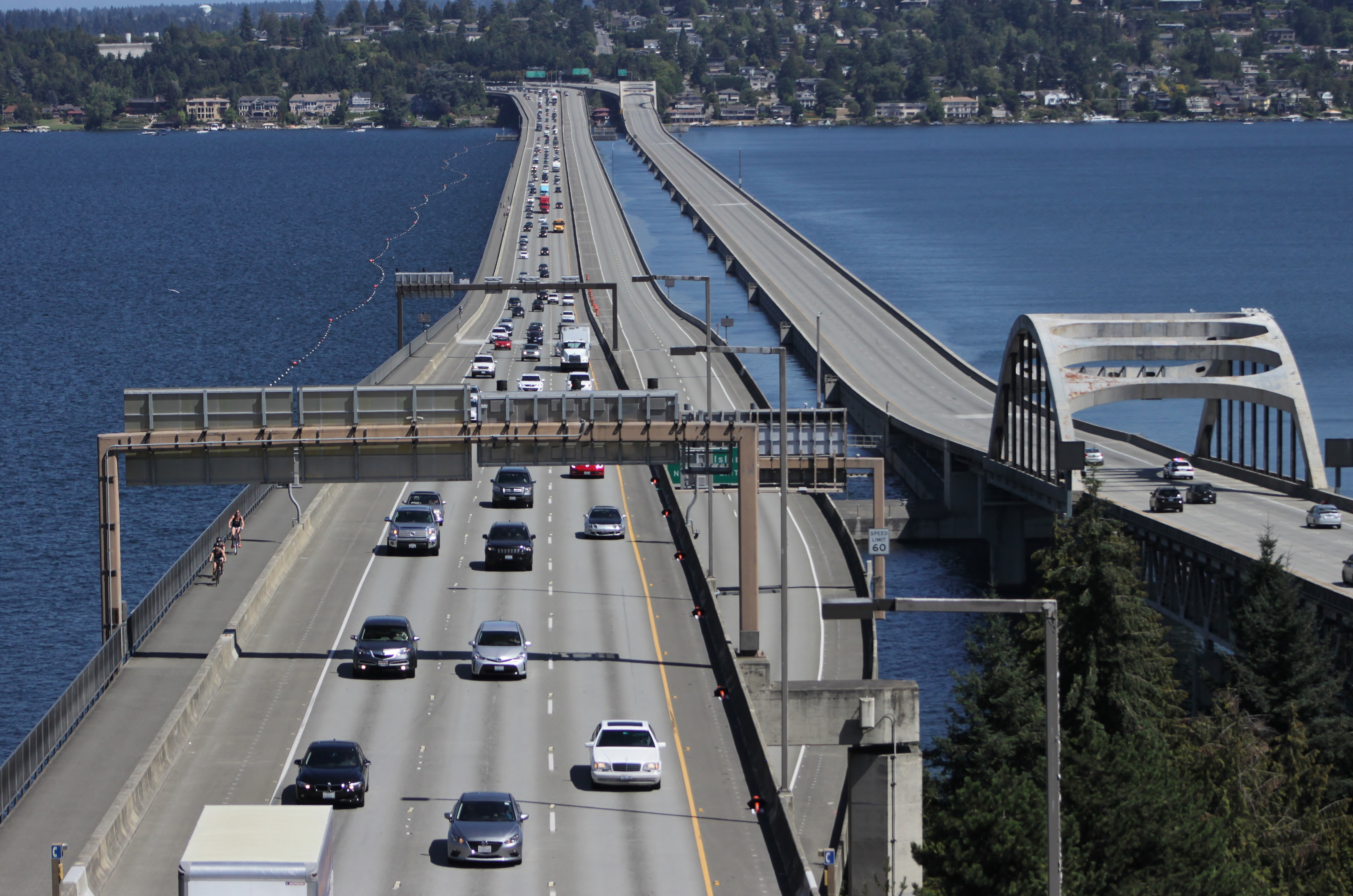 The Interstate 90 floating bridges over Lake Washington, viewed from the Seattle side shortly after re-opening to traffic following a Blue Angels performance.